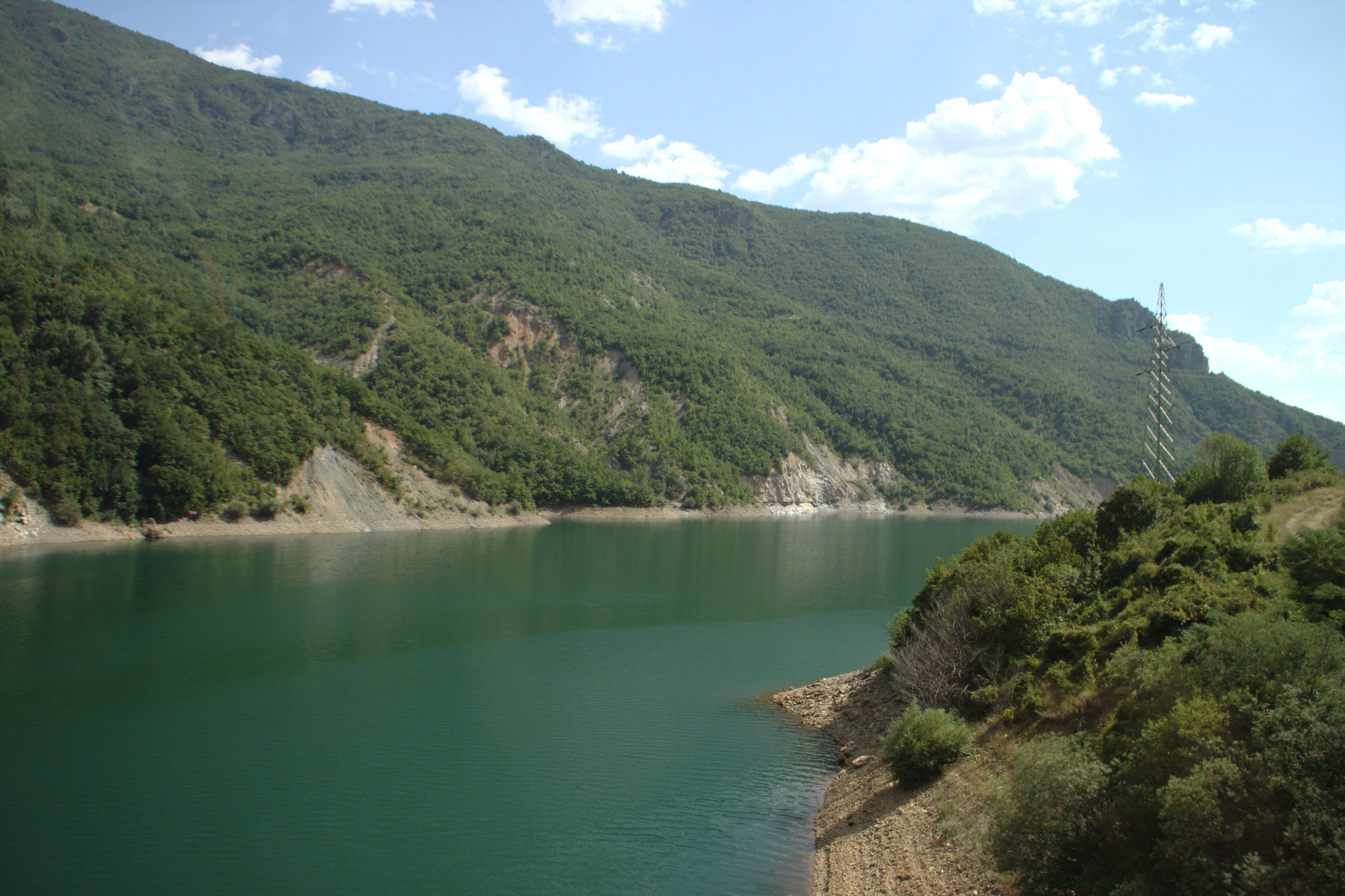 Northern end of the Lake of Debar, Republic of Macedonia